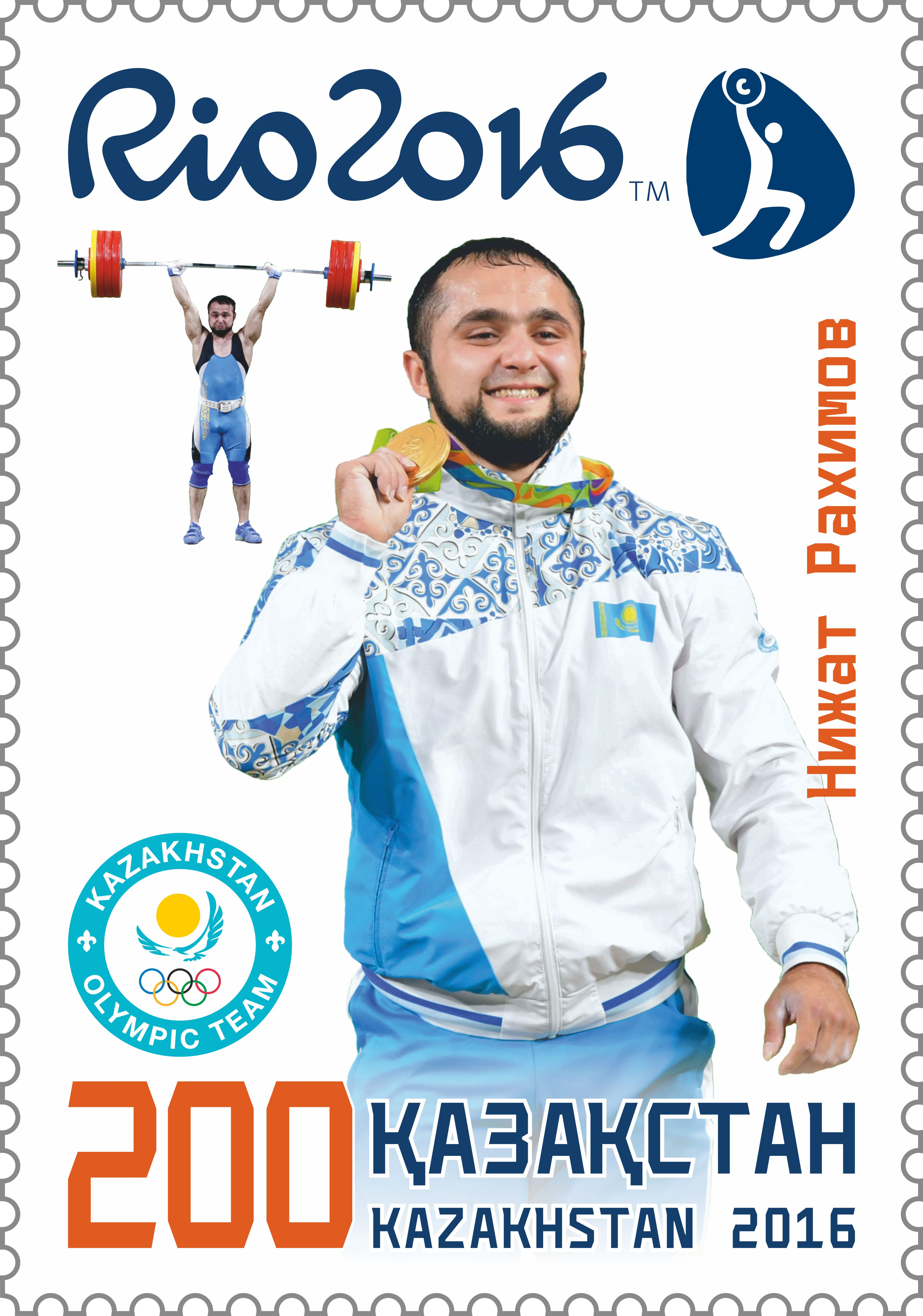 1004-1011. Sports. The XXXI Olympic Games in Rio de Janeiro.